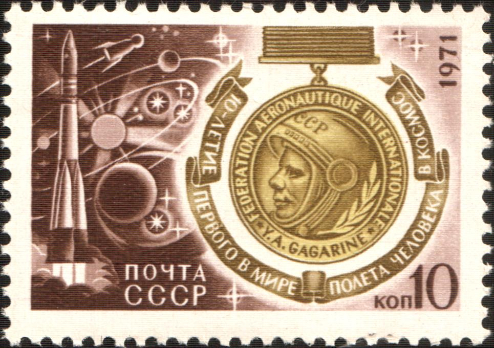 USSR stampː Yuri Gagarin Medal, Spaceships and Planets. Seriesː 10th Anniversary of First Manned Space Flight and National Cosmonautics Day